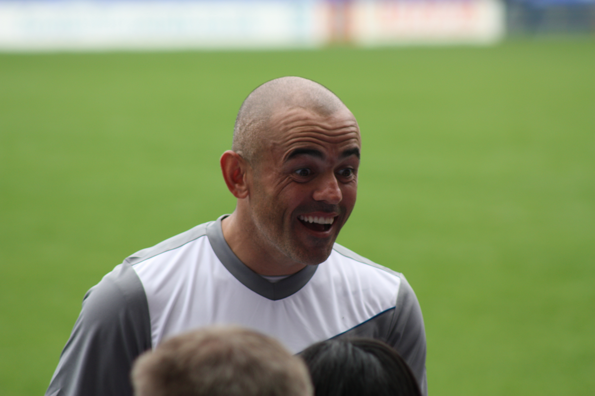 Stephen Carr at Birmingham City open training session at St.Andrews' Stadium.